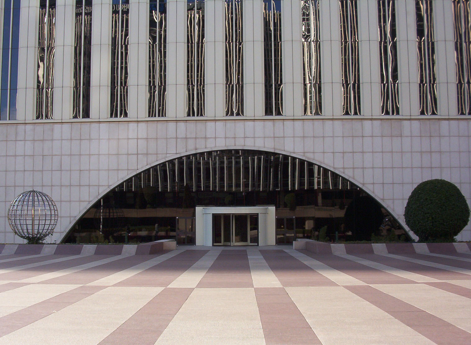 Entrance of Torre Picasso (Madrid, Spain). Built: 1982–1988. Architect: Minoru Yamasaki (1912–1986).